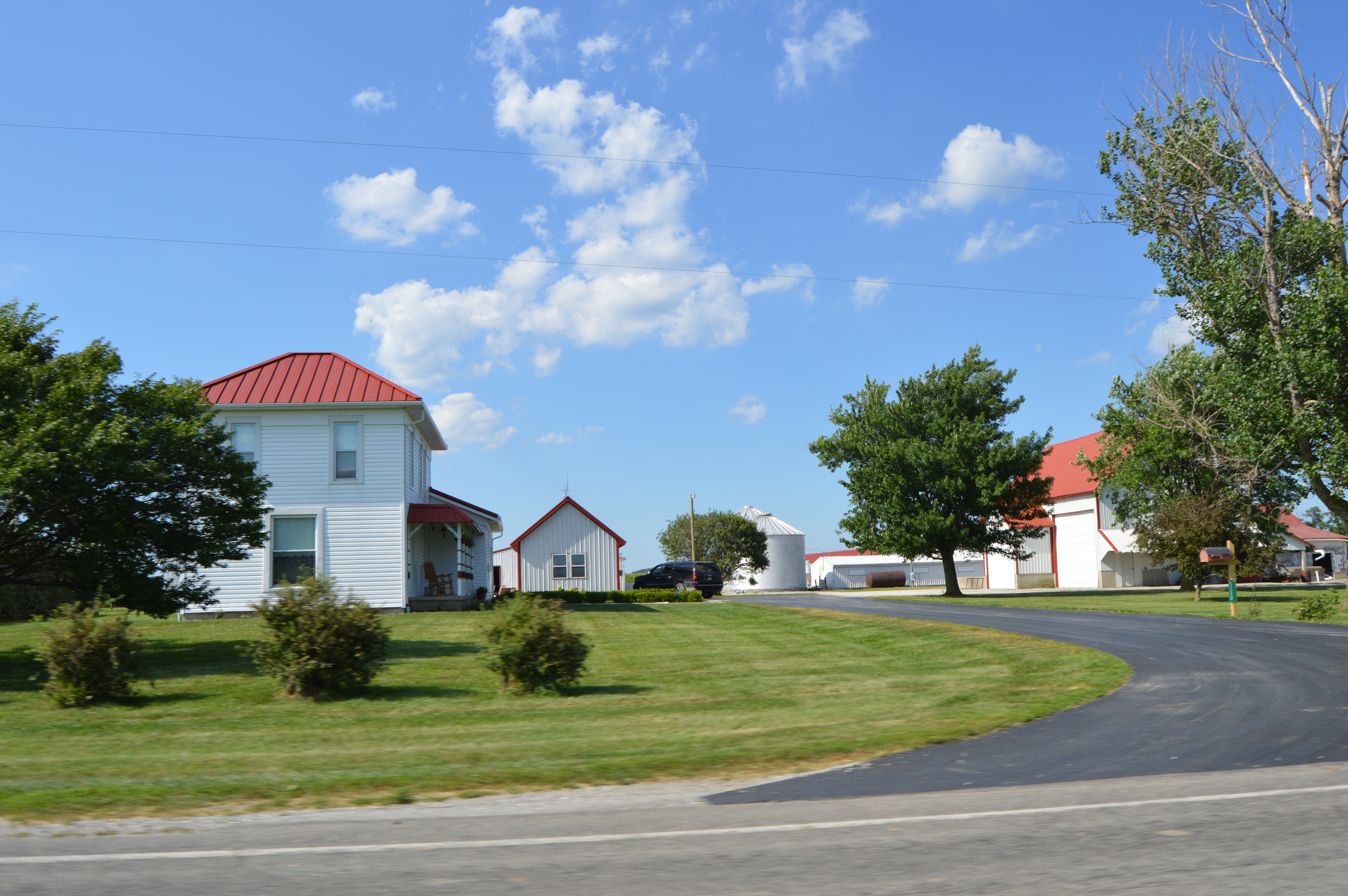 A farmstead in southern Harrison Township, Miami County, Indiana, United States, located on State Road 18 just east of S500E.